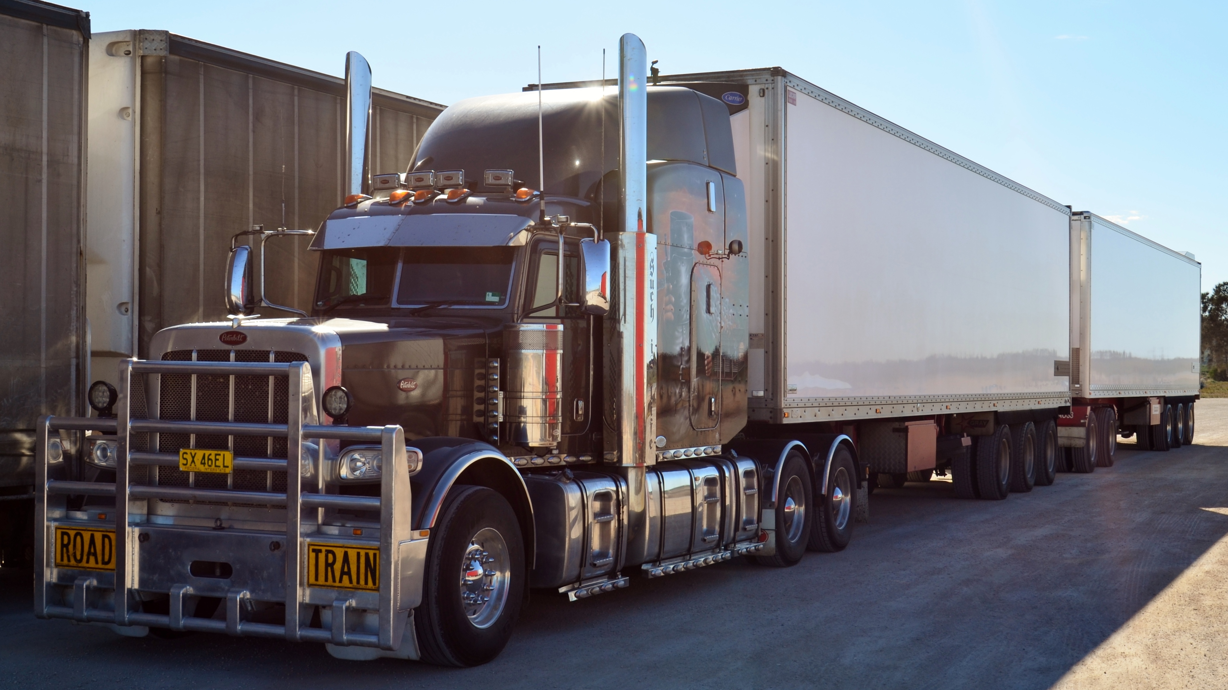 A Peterbilt 389 tractor unit parked with a double road train of box trailers at the roadhouse at Mundrabilla, Western Australia